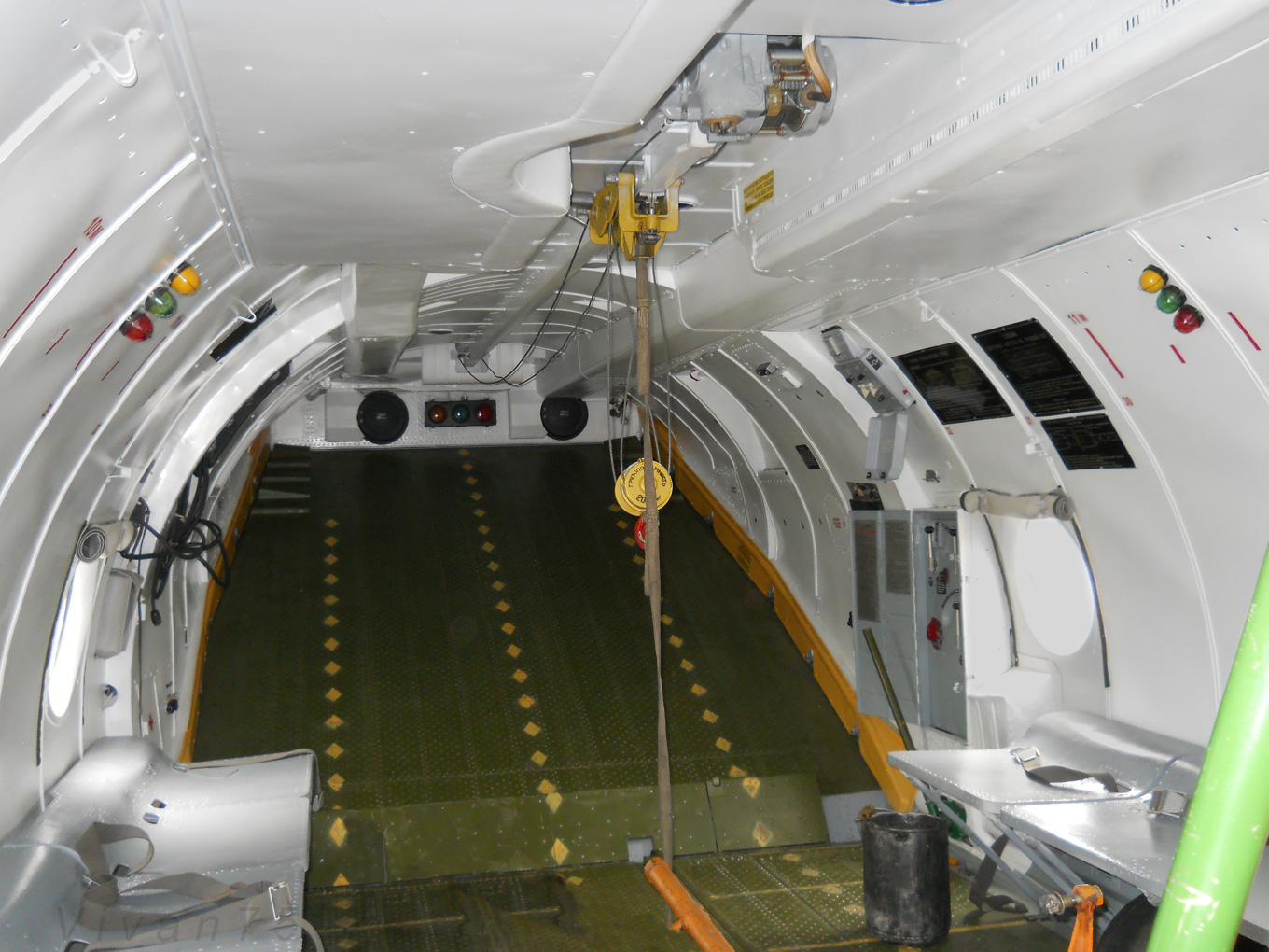 Задняя часть грузового отсека самолёта Ан-26 с рампой и тельфером